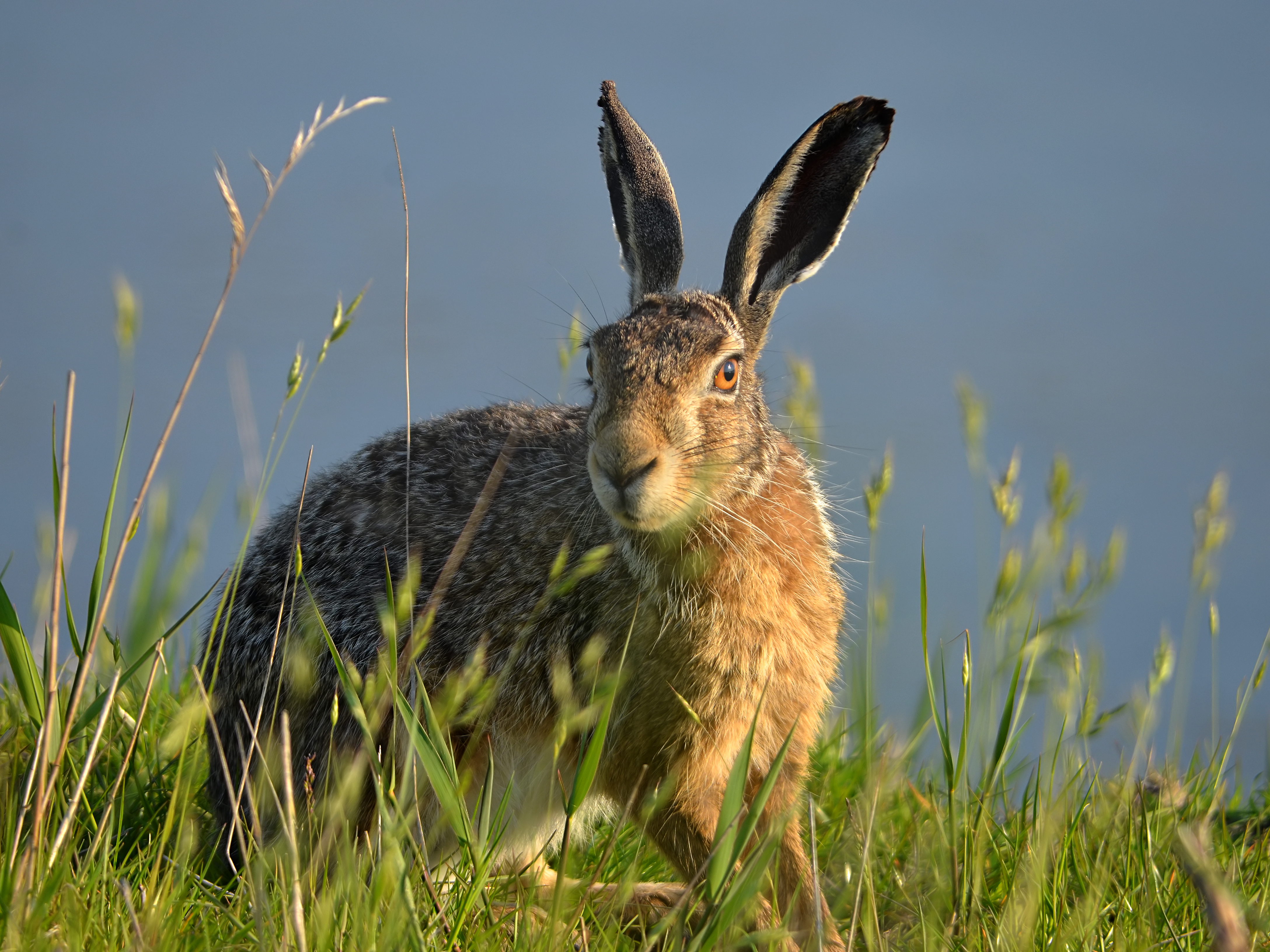 European Hare at Uitkerkse Polders, Belgium